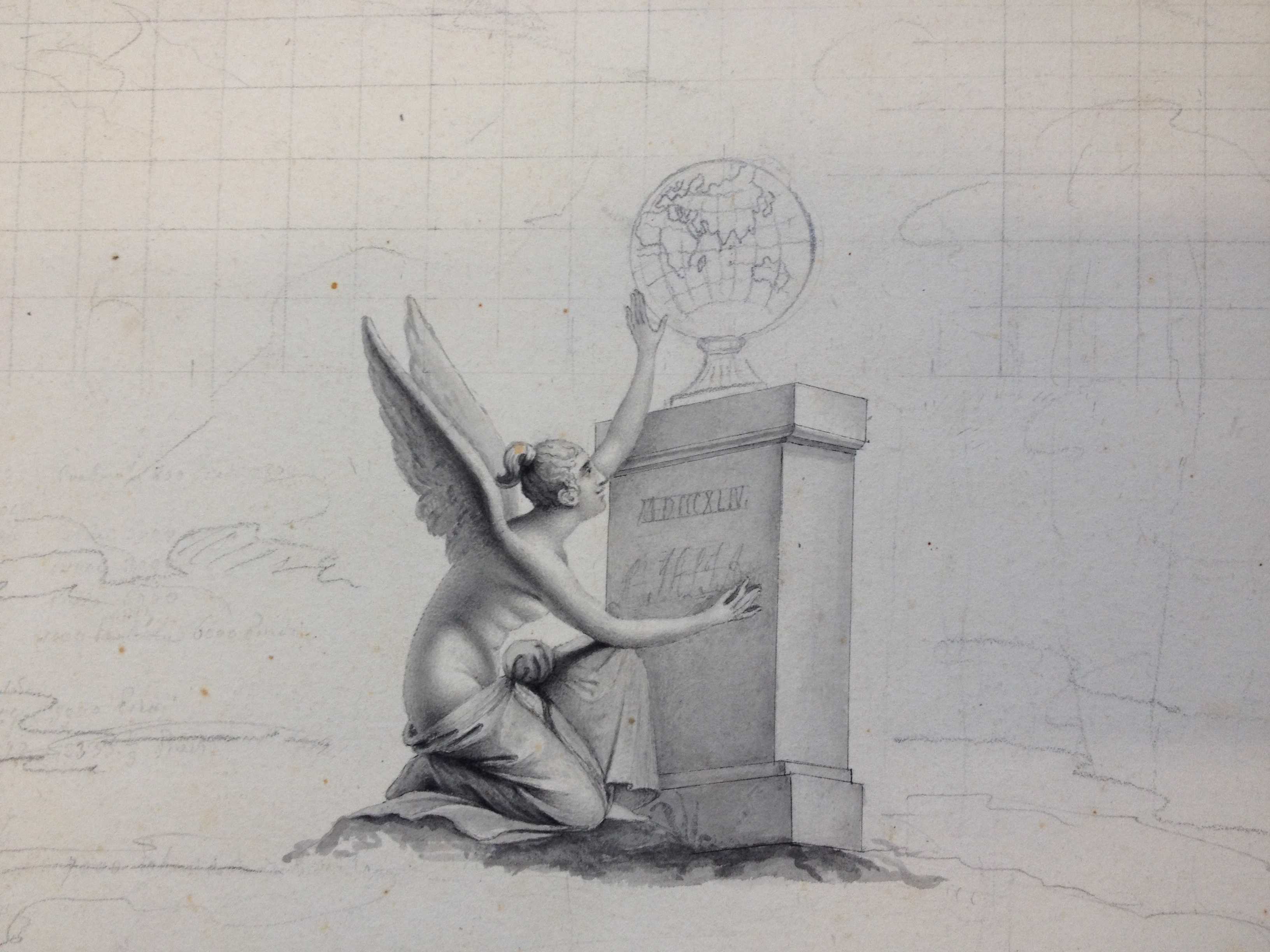 Front page of the "Nuova carta d'Italia" book by Carlo Antonio Litta Biumi. This was an atlas book of Italy, containing maps.